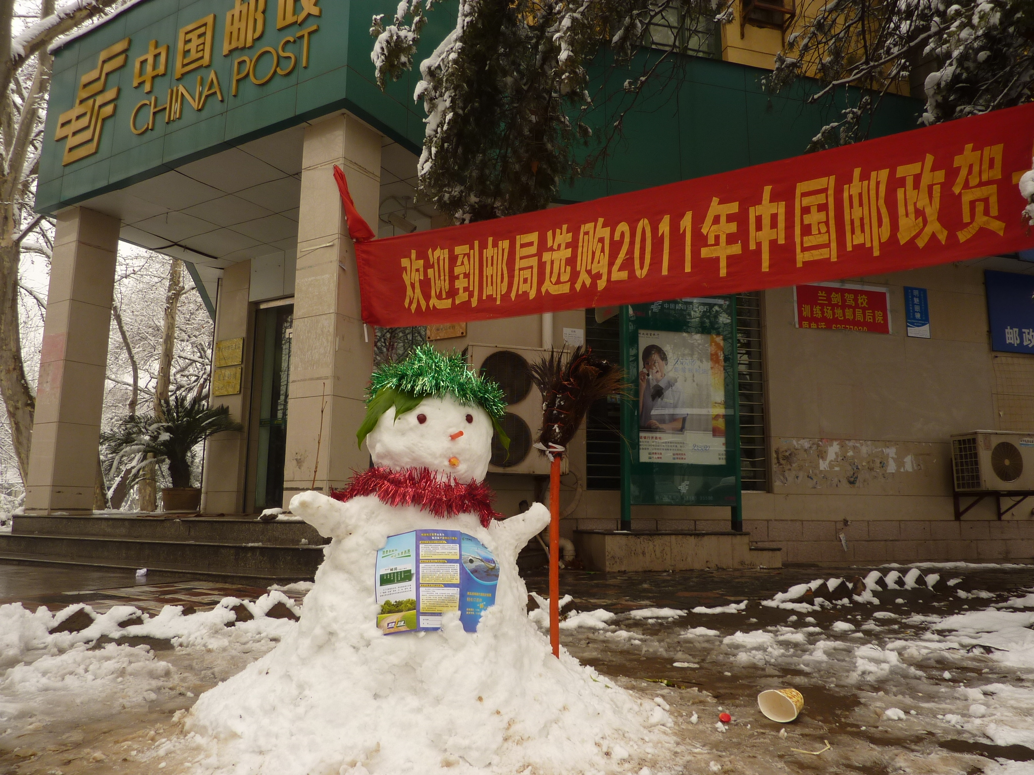 The post office on campus of Huazhong University of Science and Technology, Wuhan, and a snowman in front of it. (It was a rare snow day in Wuhan...)